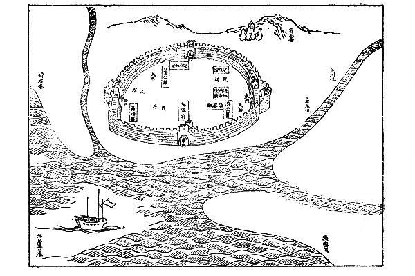 A map of city wall in jieshi, China